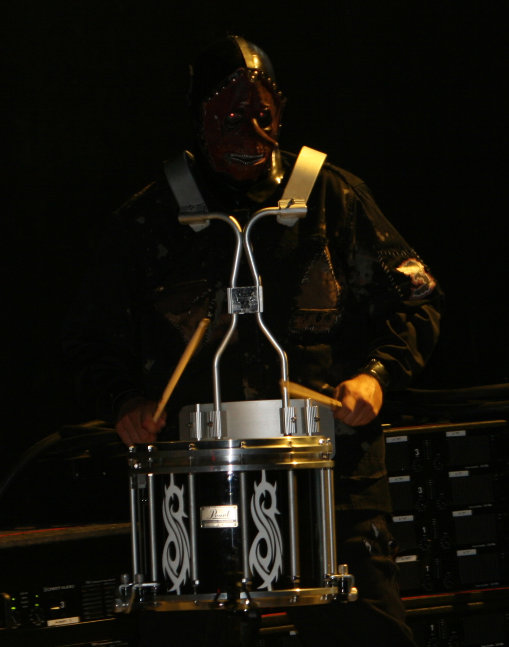 Percussionist Chris Fehn of Slipknot at the mayhem festival 2008.